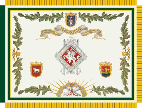 Flag of General Jonas Zemaitis Lithuanian Military Academy